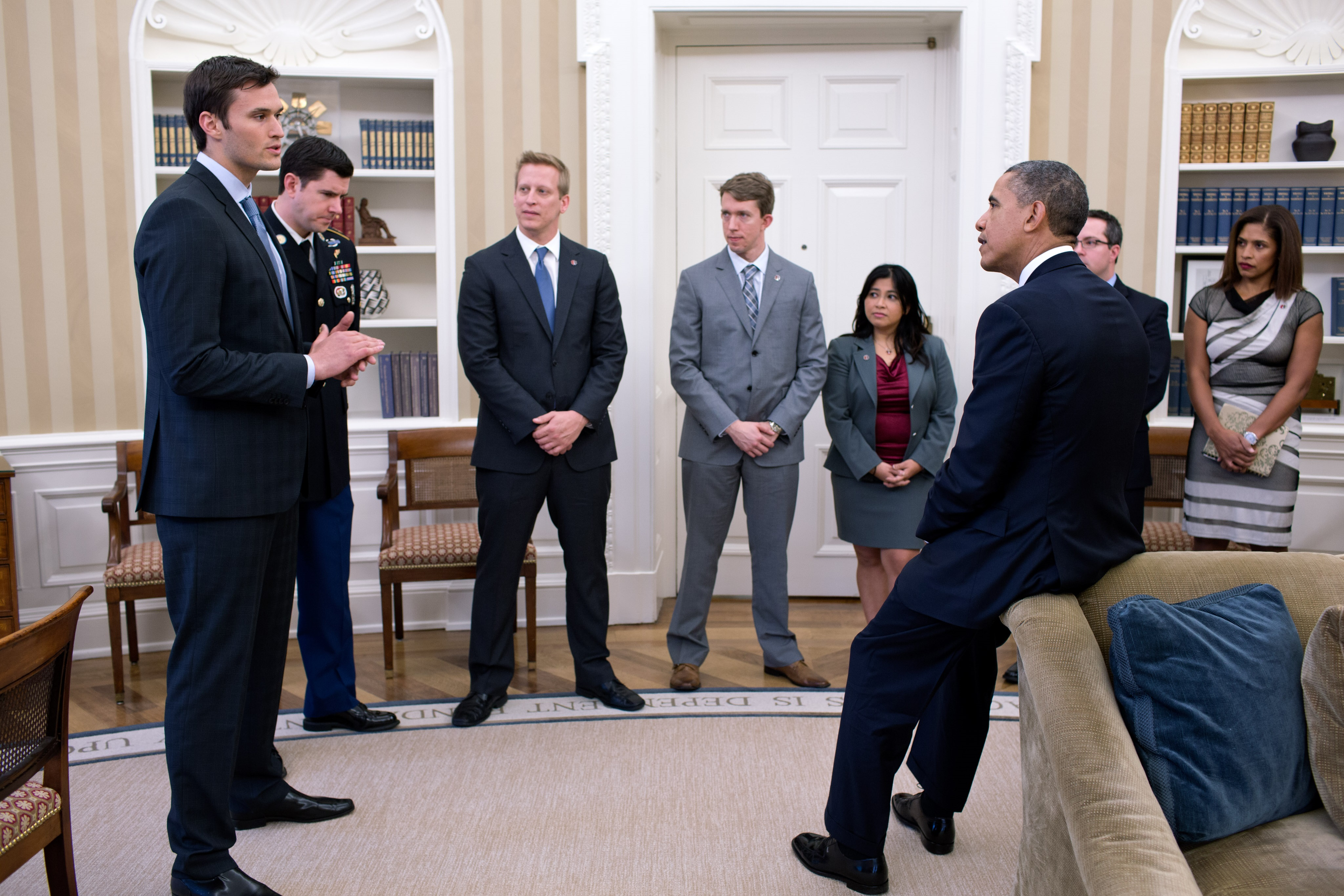 President Barack Obama greets members of the Team Rubicon disaster relief organization in the Oval Office, Feb. 8, 2013. Participants include: Danielle Harrington, volunteer; James "JC" McGreehan, Mission Leader; William McNulty, Vice President and co-founder; Daniel Nidess, Director of Personnel (fourth from left); Matt Pelak (second left), Director of Strategic Partnerships; Andrew Stevens, Director of Programs (third left); Maria Lourdes Tiglao, Regional Director of Recruitment (fifth left); and Jacob Wood, President and co-founder (left). (Official White House Photo by Pete Souza)